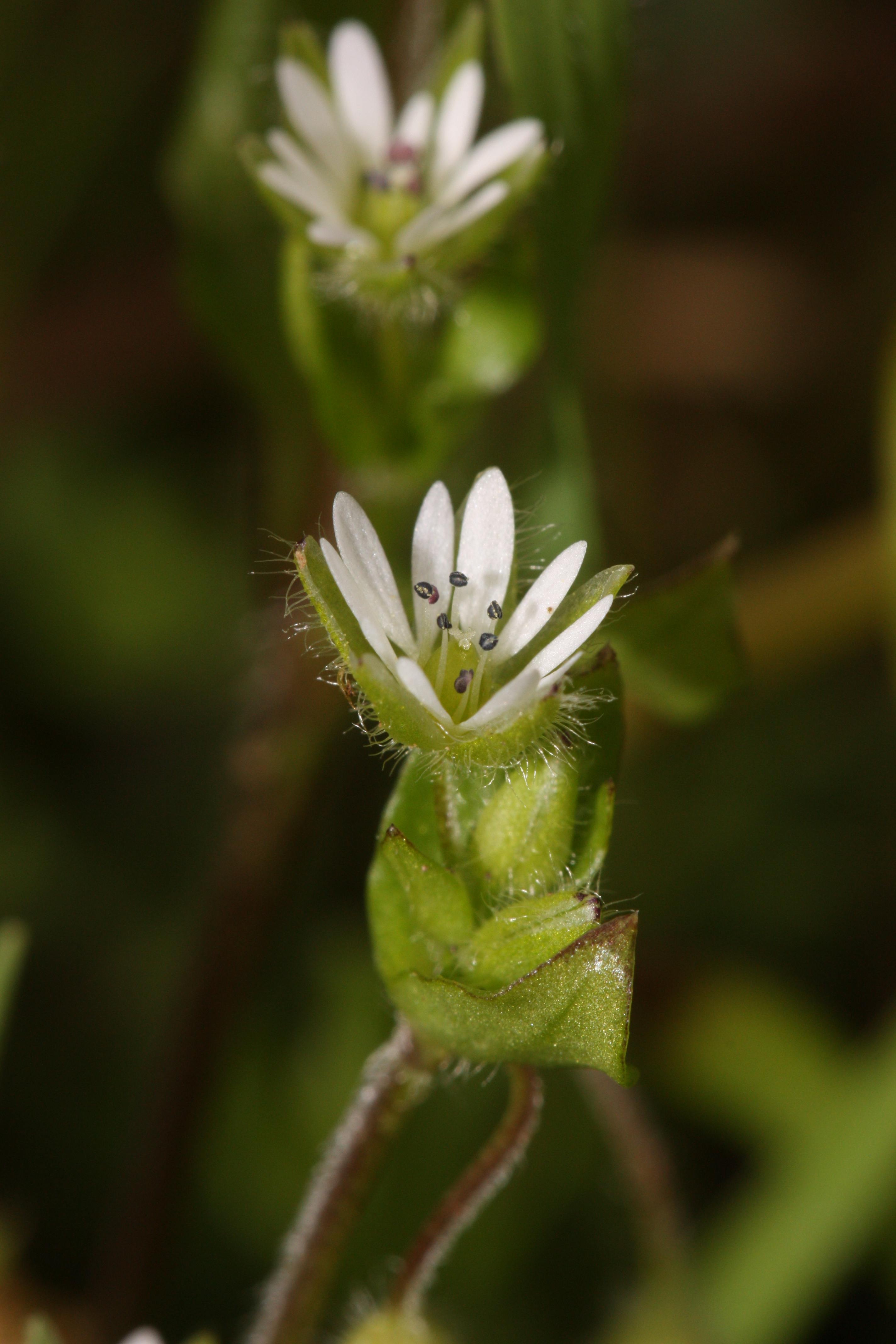 Common Chickweed Viewpoint location: McCall Point Trail, Tom McCall Preserve Viewpoint elevation: 480 meter (1574 ft) Location source: Garmin GPSmap 60CSx Location Datum: WGS84